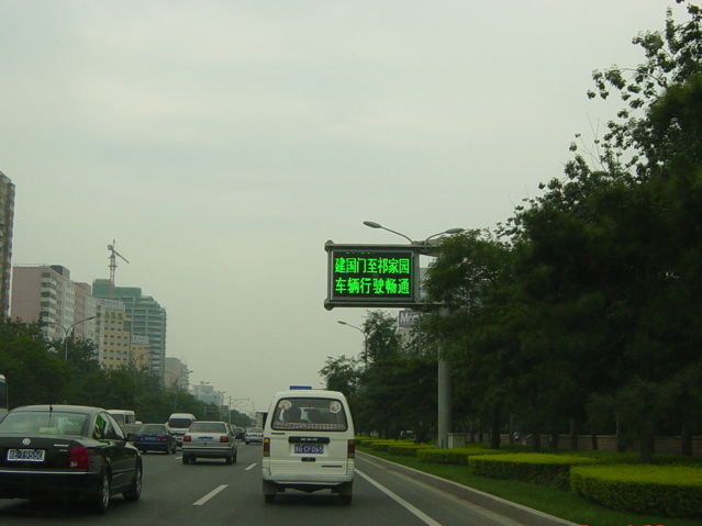 East 2nd Ring Road south of Chaoyangmen (photo taken July 2004). Note the electronic display in Chinese, which reports on road conditions.